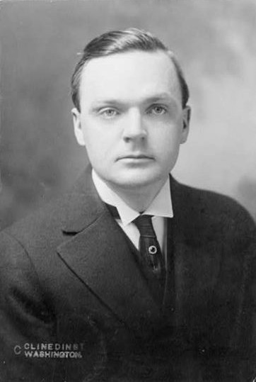 Dudley Field Malone (1882 - 1950), lawyer and member of the Democratic Party